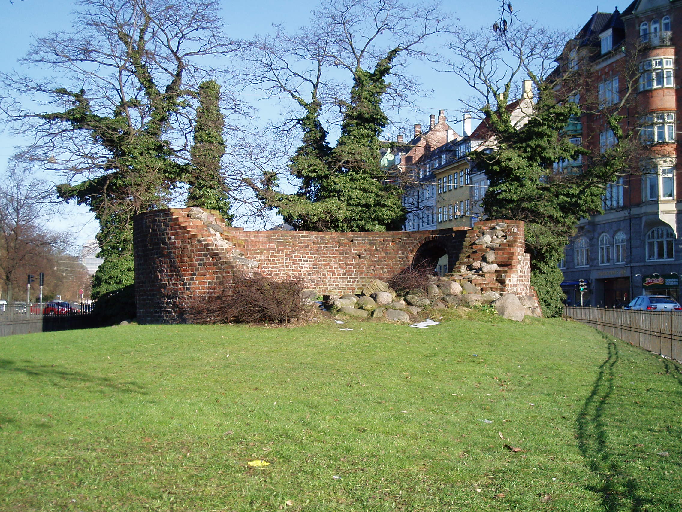 Ruin of Copenhagen's fortress at the northern town gate - "Tower of Jarmer".